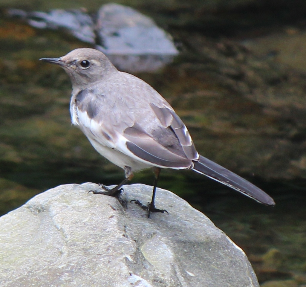 Motacilla grandis (Japanese Wagtail), juvenile in Japan